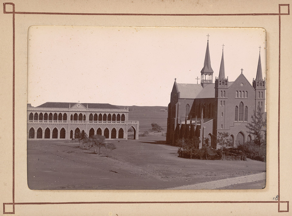 St. Patrick`s Cathedral, Karachi, Pakistan